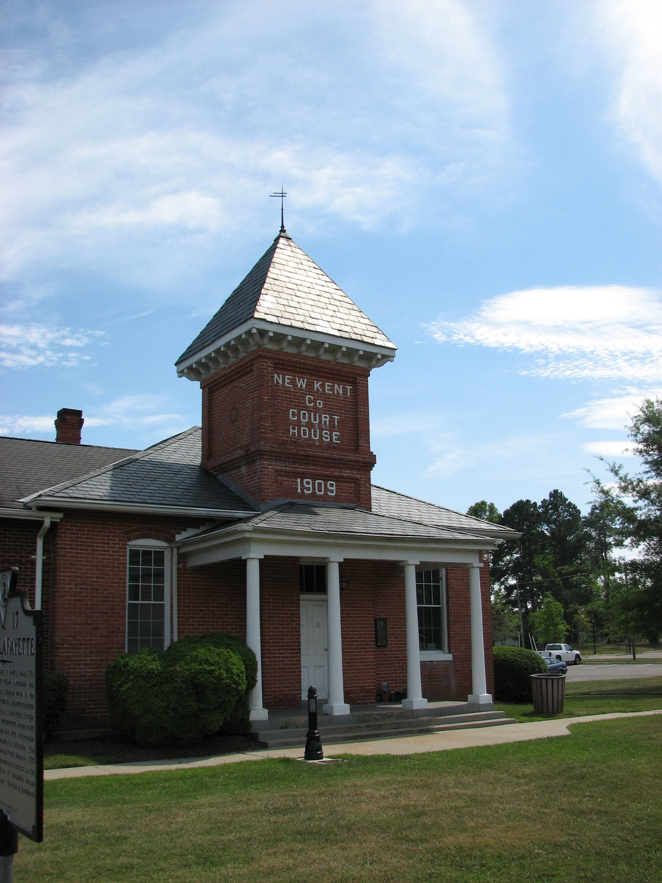 A picture of the old New Kent County, VA courthouse.